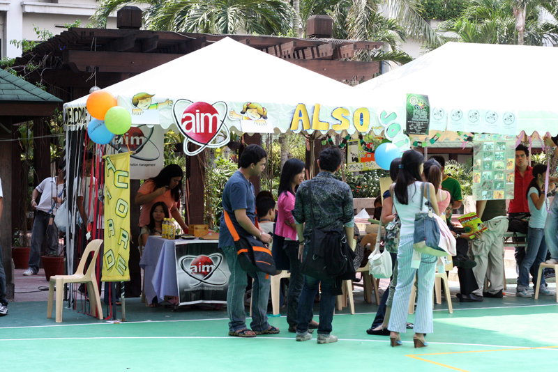 Student Activities Recruitment Week 2007. Location: Plaza Villarosa, De La Salle-College of Saint Benilde Taft Campus, Manila. Original file name at enwiki: STAR Week 2007.jpg